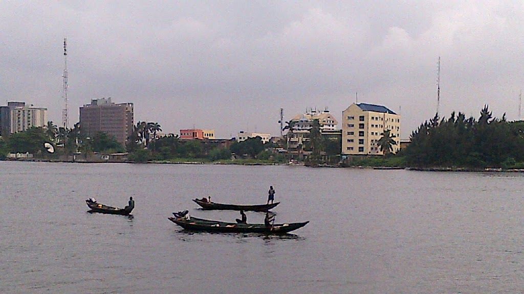 Fishermen returning to their base through the Lagos lagoon. Taken whilst having a zumba class on the grounds of the Radisson Blu Hotel. Depicts how rural meets urban. This is an image of Cultural Fashion or Adornment from Nigeria